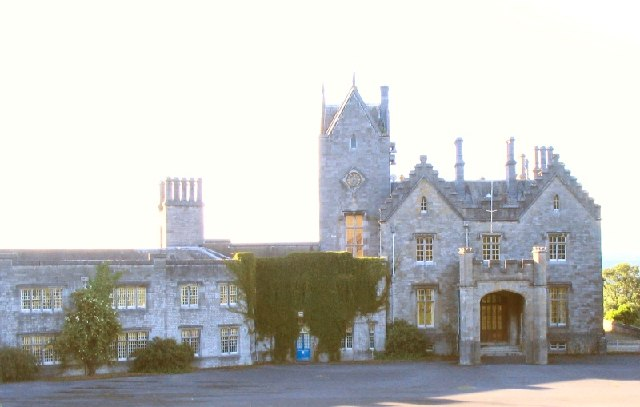 House at Gelli Aur Country Park. The various walks pass around the house but never right up to it. This is the view from the Arboretum walk. Various maps have the house labelled as an agricultural college.